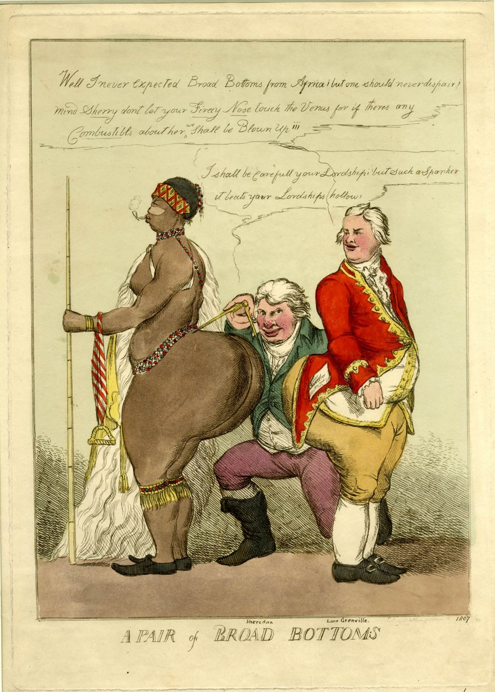 "A Pair of Broad Bottoms", a caricature by William Heath from 1810. The article "Lipreading: Remembering Saartjie Baartman" from The Australian Journal of Anthropology describes it as follows: "On the aftermath of the court case Saartjie Baartman was exhibited in Piccadilly when it was (erroneously) anticipated that the Perceval government would fall and would be replaced by a coalition government headed by Lord Grenvill [sic], which was dubbed by Horace Walpole as the 'Broad Bottom Ministry'. Richard Sheridan, the English playwright and parliamentarian is measuring Saartjie Baartman's buttocks. Grenville is saying, 'Well I never expected Broad Bottoms from Africa, but one should never despair! Mind Sherry, don't let your Fiery Nose touch the Venus for if there's any Combustibles around here we shall be Blown Up!!!' Sheridan answers, 'I shall be Careful Your Lordship! But such a spanker, it beats your Lordships Hollow!!!'"